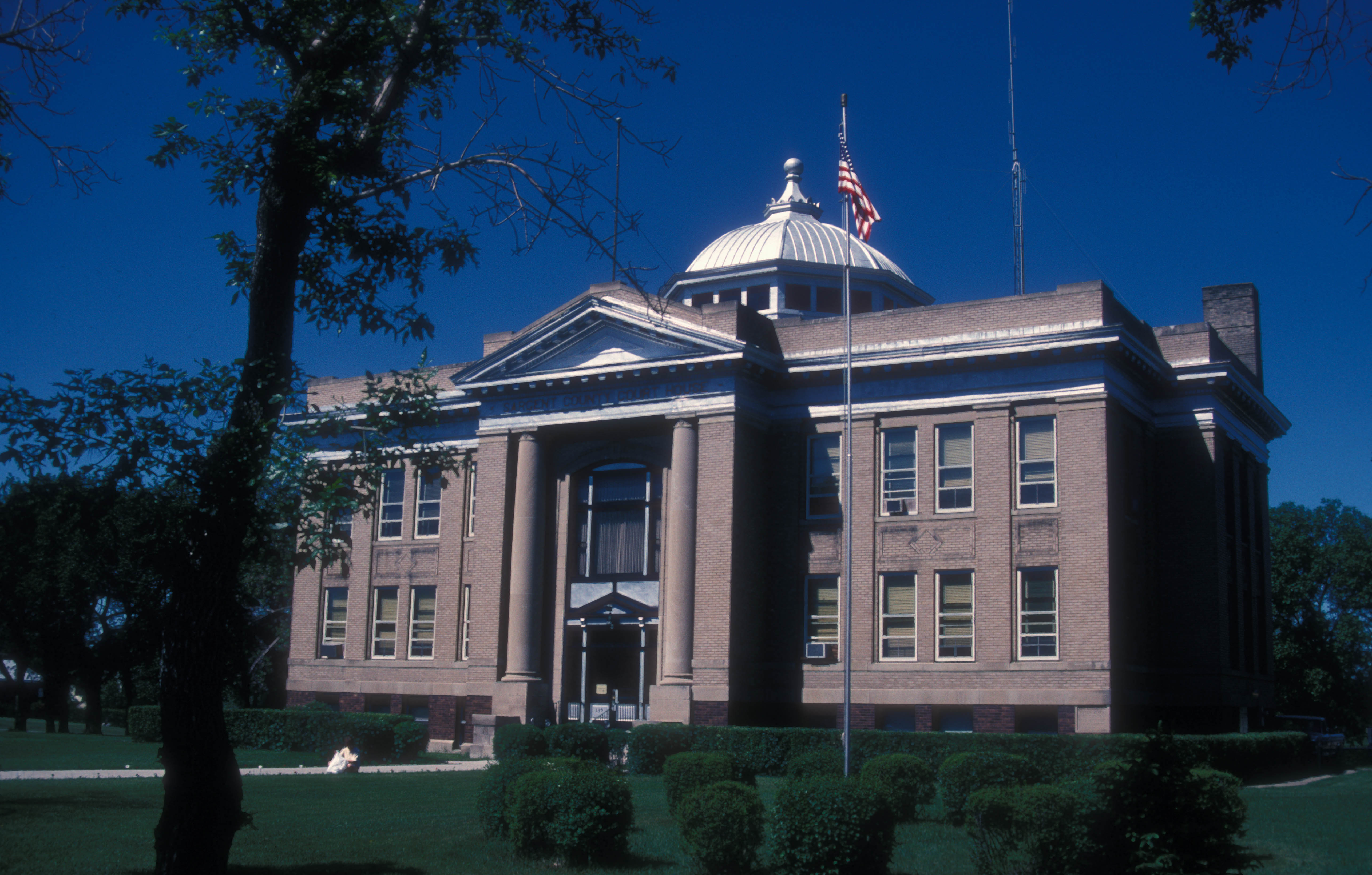 ONE OF MANY DESIGNED BY THIS PAIR OF ARCHITECTS; BUECHNER & ORTH BEAUX-ARTS COURTHOUSE